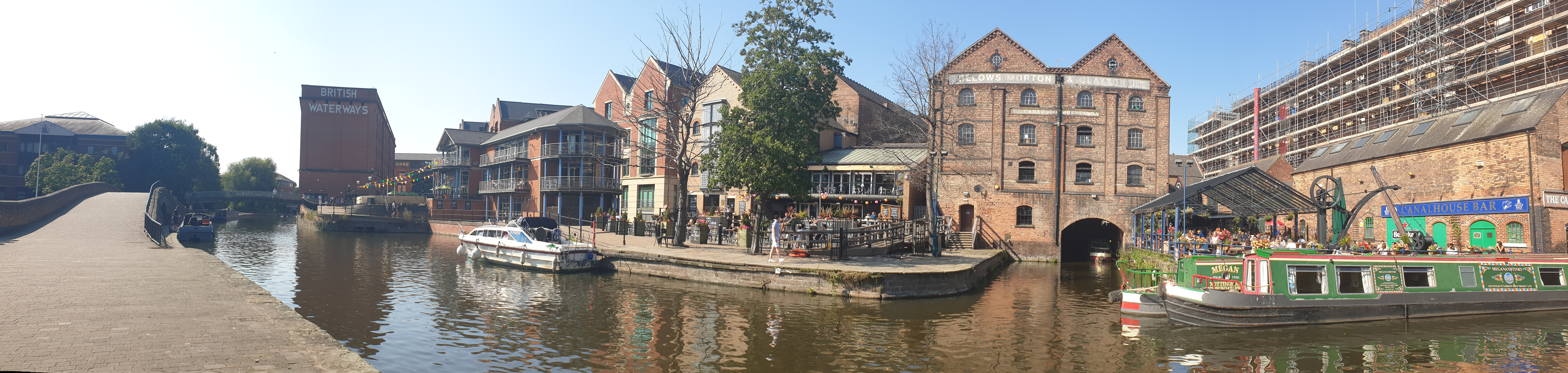 Panoramic view of Castle Wharf in Nottingham